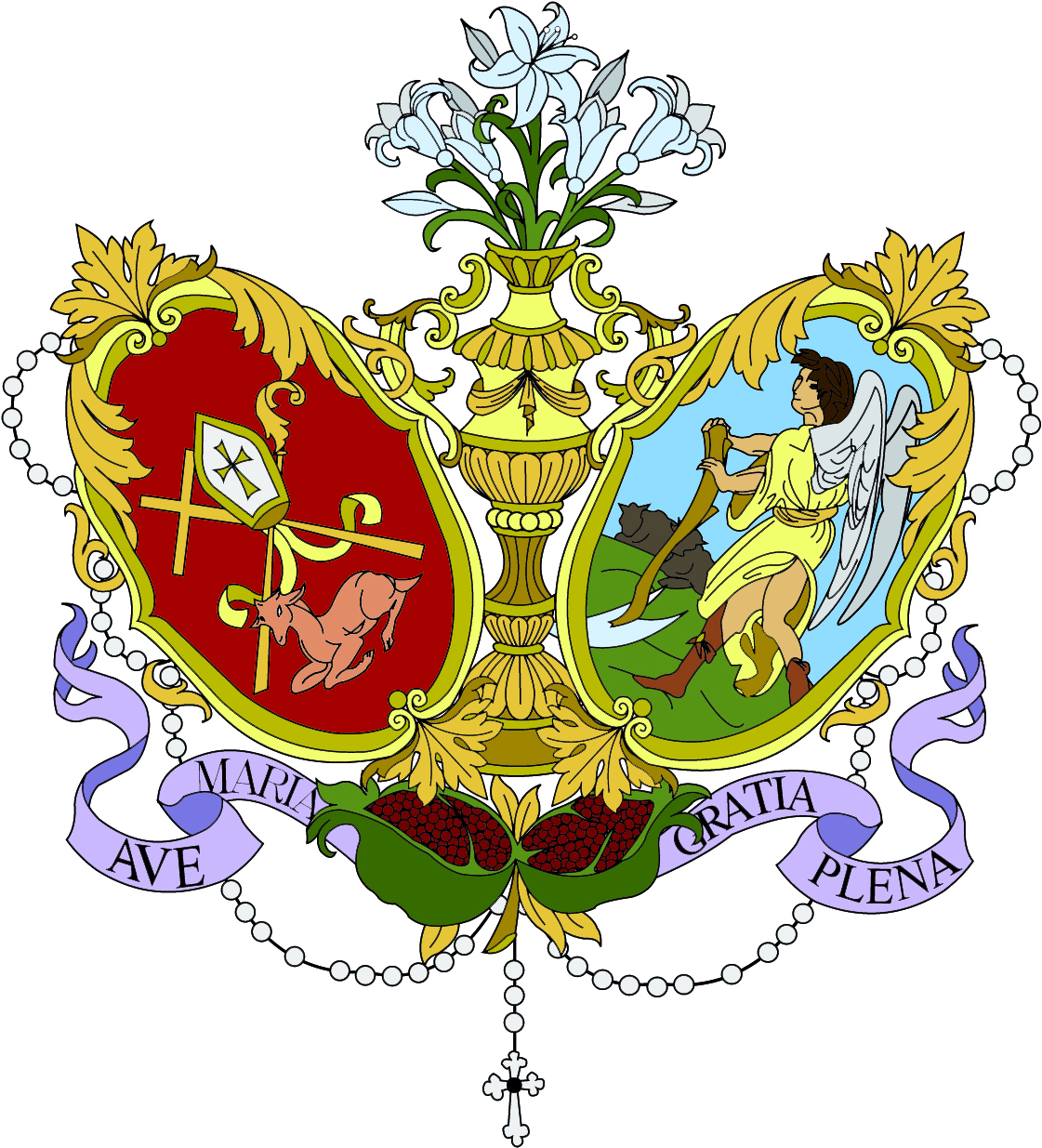 Confraternity of Our Lady of Pomegranate (Granada, Spain)